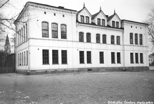 The old school "Marsfältets skola" in Örebro, Sweden.